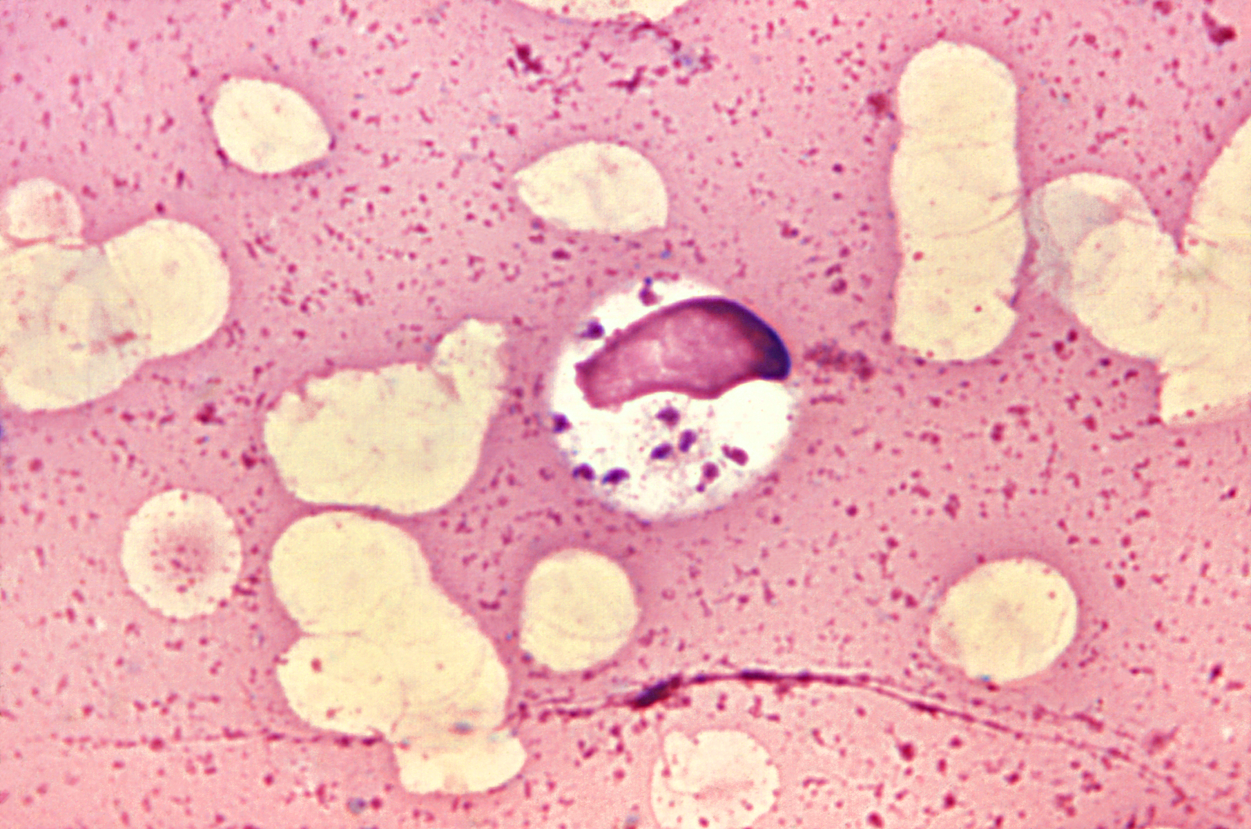 Leishmania donovani in bone marrow cell. Smear. Parasite.